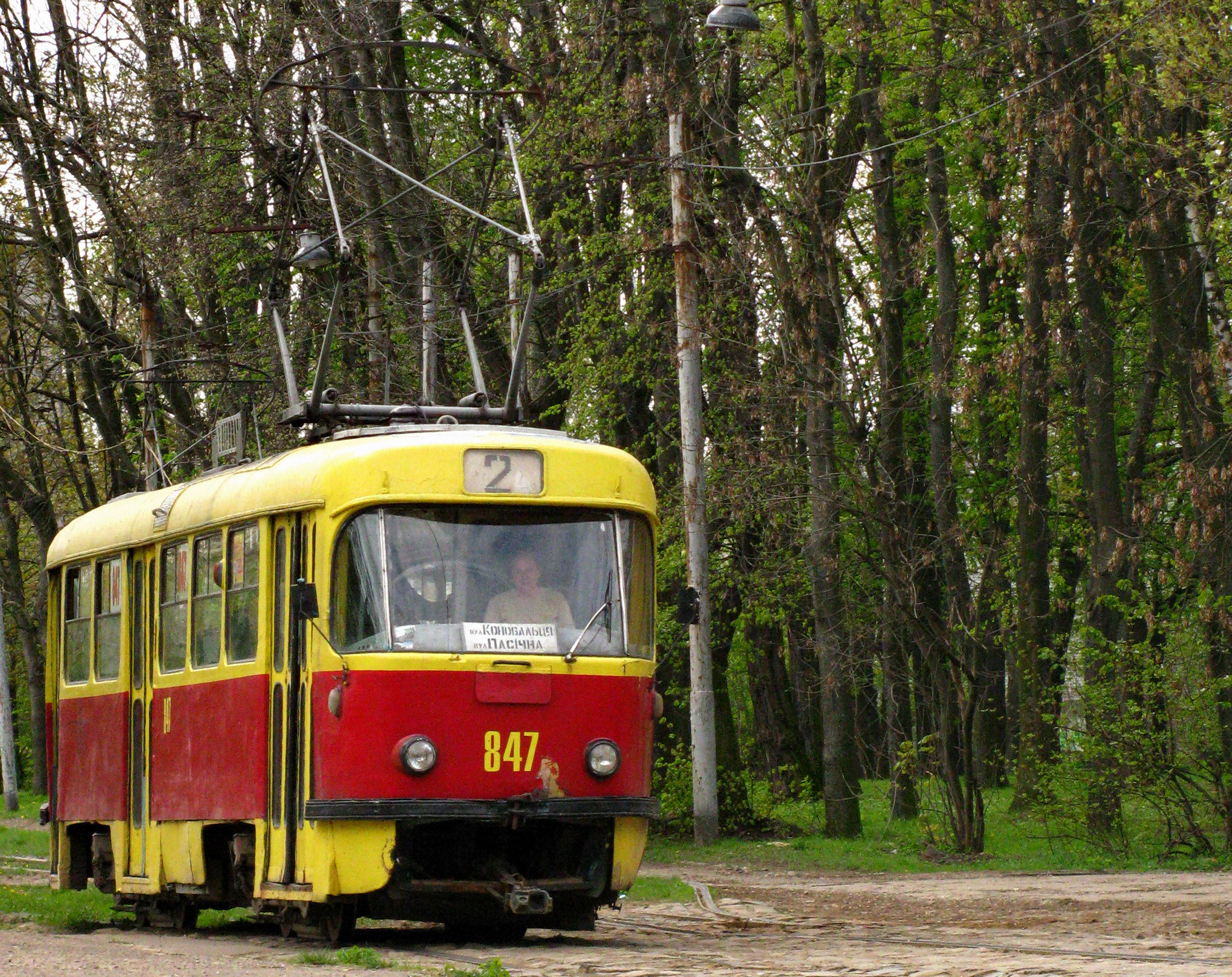 Tatra T4 in Lviv